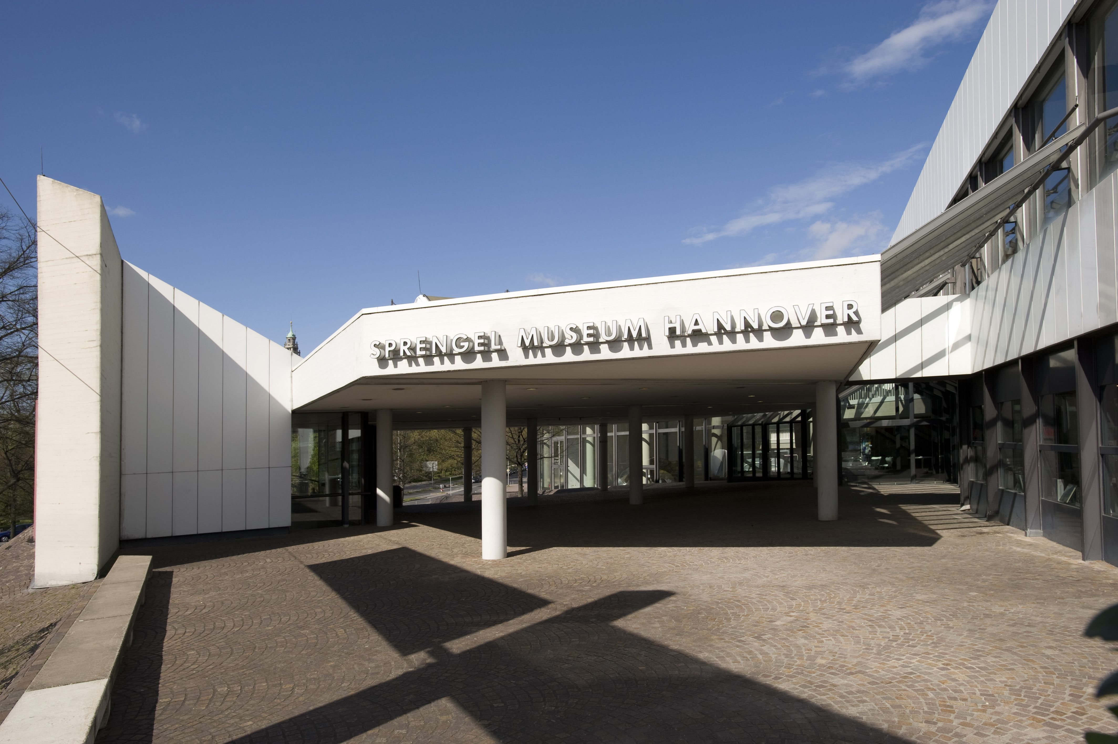 Sprengel Museum Hannover Entrance